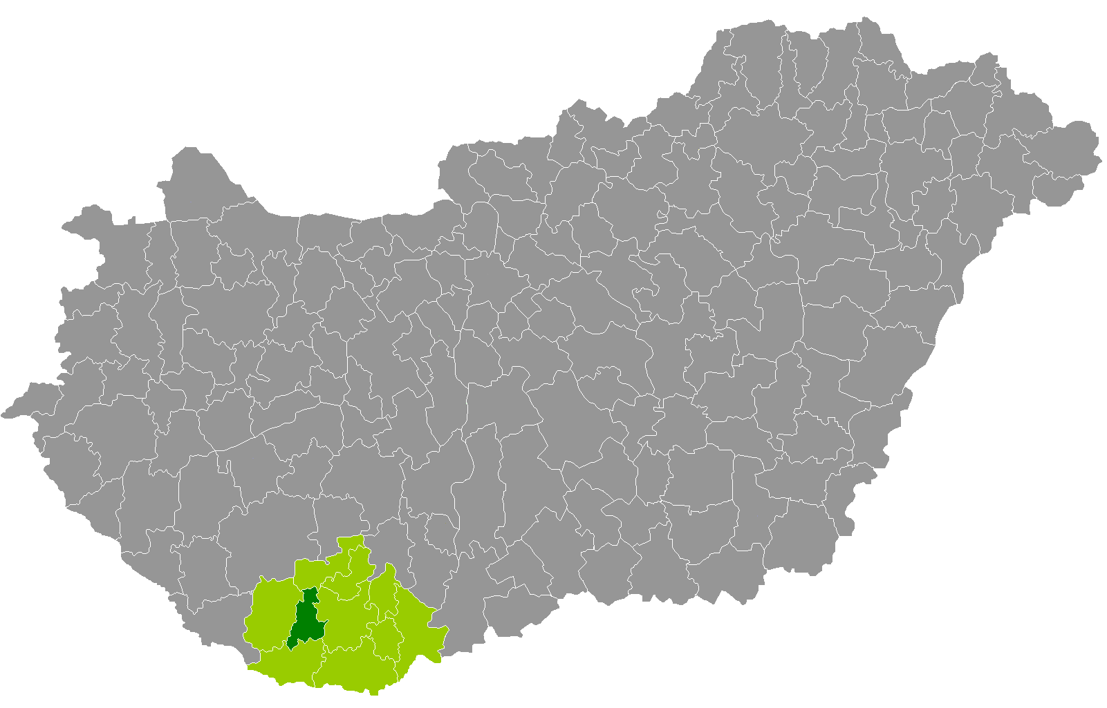 Location of Szentlőrinc District, Baranya, Hungary